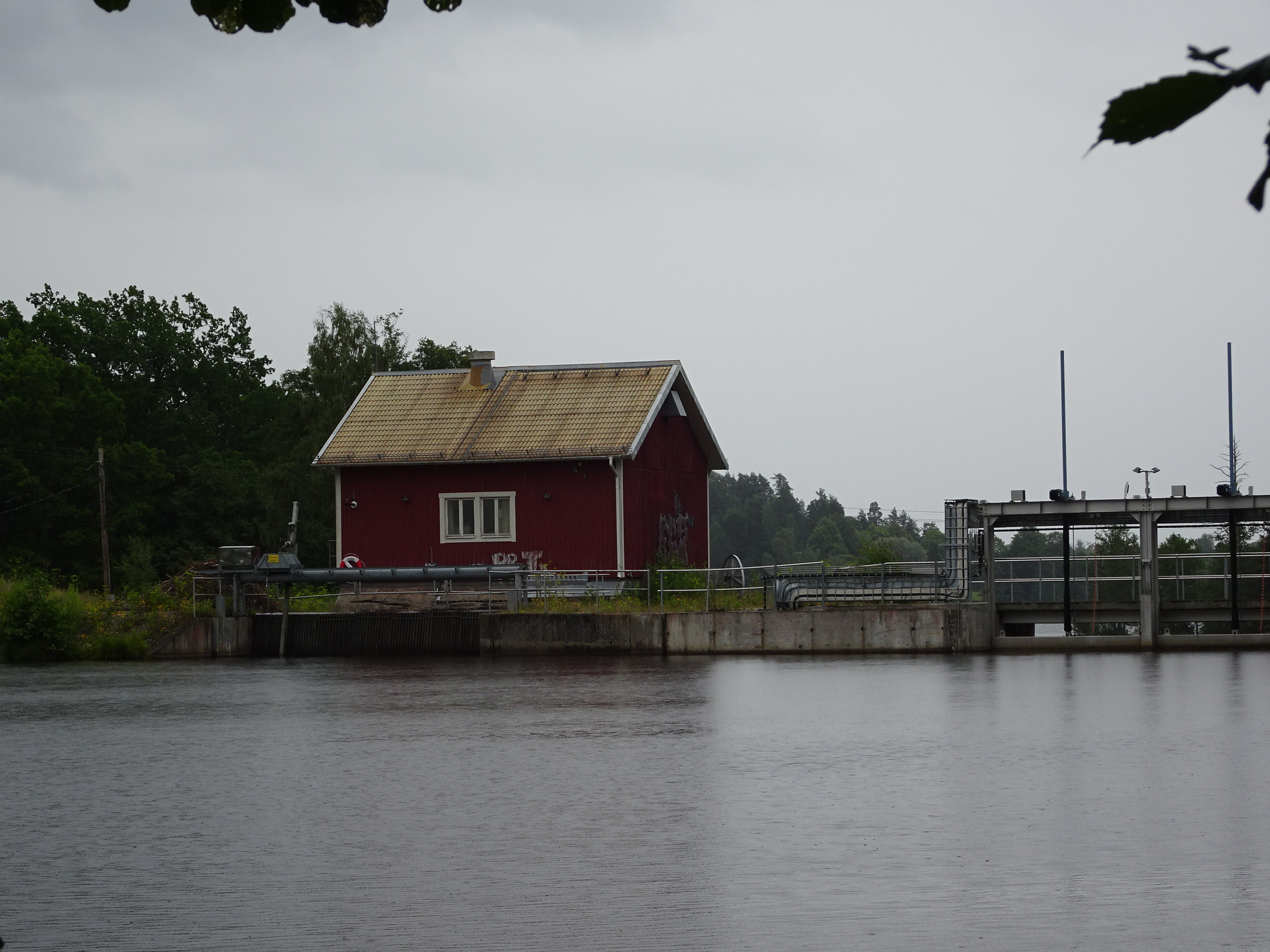 Uddnäs hydroelectric power station in the river Kolbäcksån, in Fagersta in Sweden.